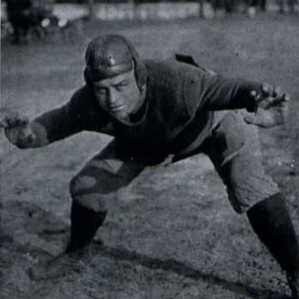 Photograph of Carl "Tootie" Perry, the Gators' "jolly captain" and "Dixie's greatest guard" who played every minute of every game for two years and "developed into a wizard at blocking punts." 5' 10", 230 pounds